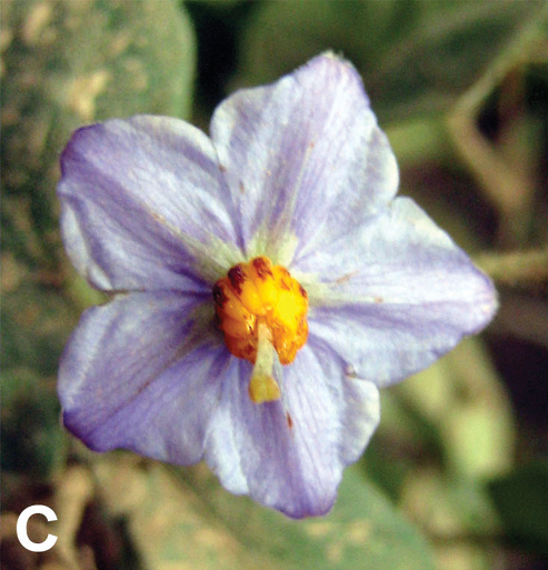 Solanum baretiae Tepe. A Habit B Flower showing reflexed corolla and bud C Flower with flat corolla D Mature fruit E Immature fruit; note mottling, which is absent in the mature fruit. [A–B Tepe and McCarthy 3346; C Tepe et al. 2885; D Bohs et al. 3735; E Tepe et al. 2888].